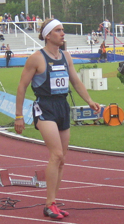 Jiří Mužík, Czech athlete (400m hurdles), at Josef Odložil Memorial, Prague, 27th June 2005 (5th in 50.13 s).